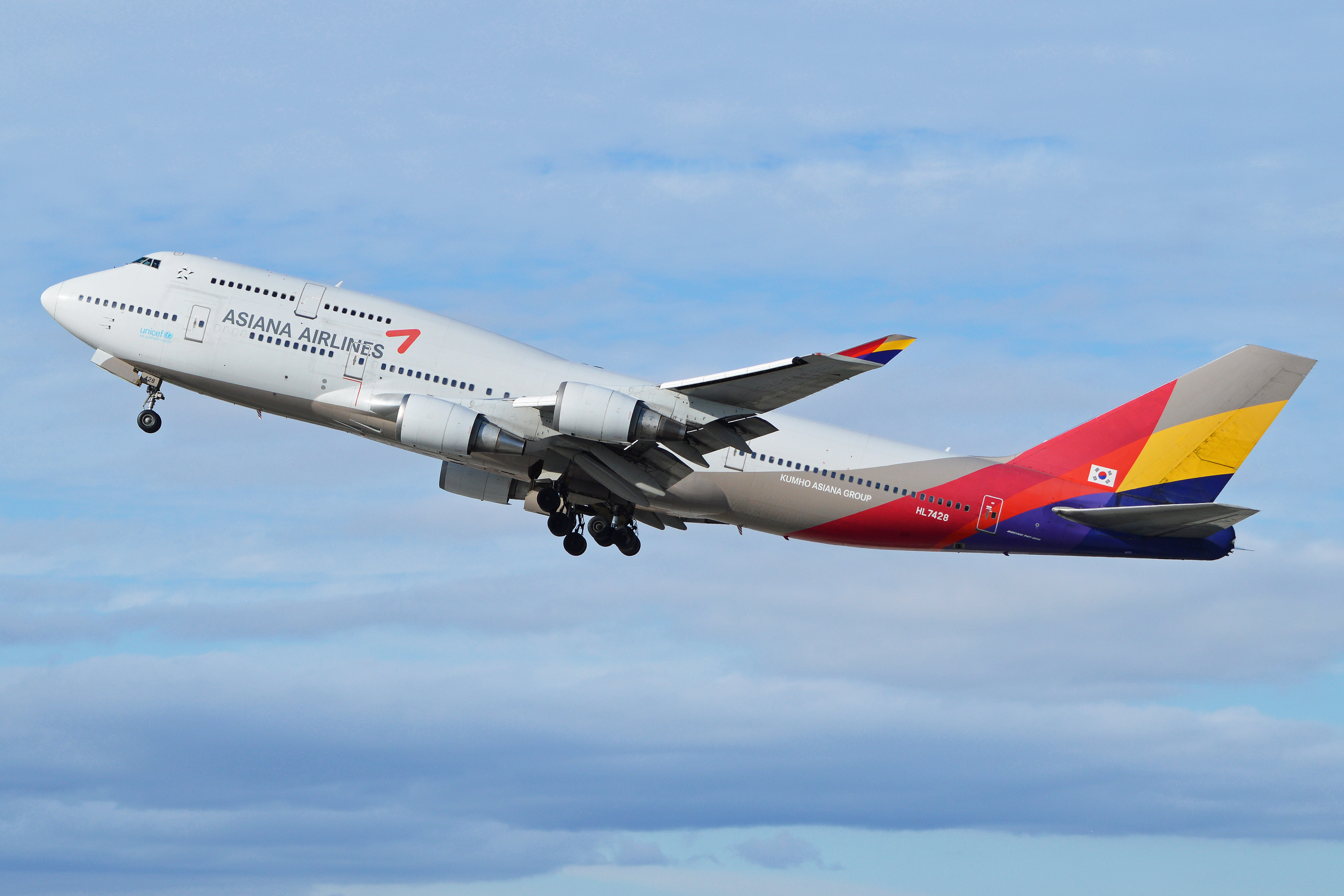 c/n 28552, l/n 1160. Built in 1998. Seen departing LAX Taken from the Imperial Hill spotting location. Los Angeles, California, USA. 08-2-2014